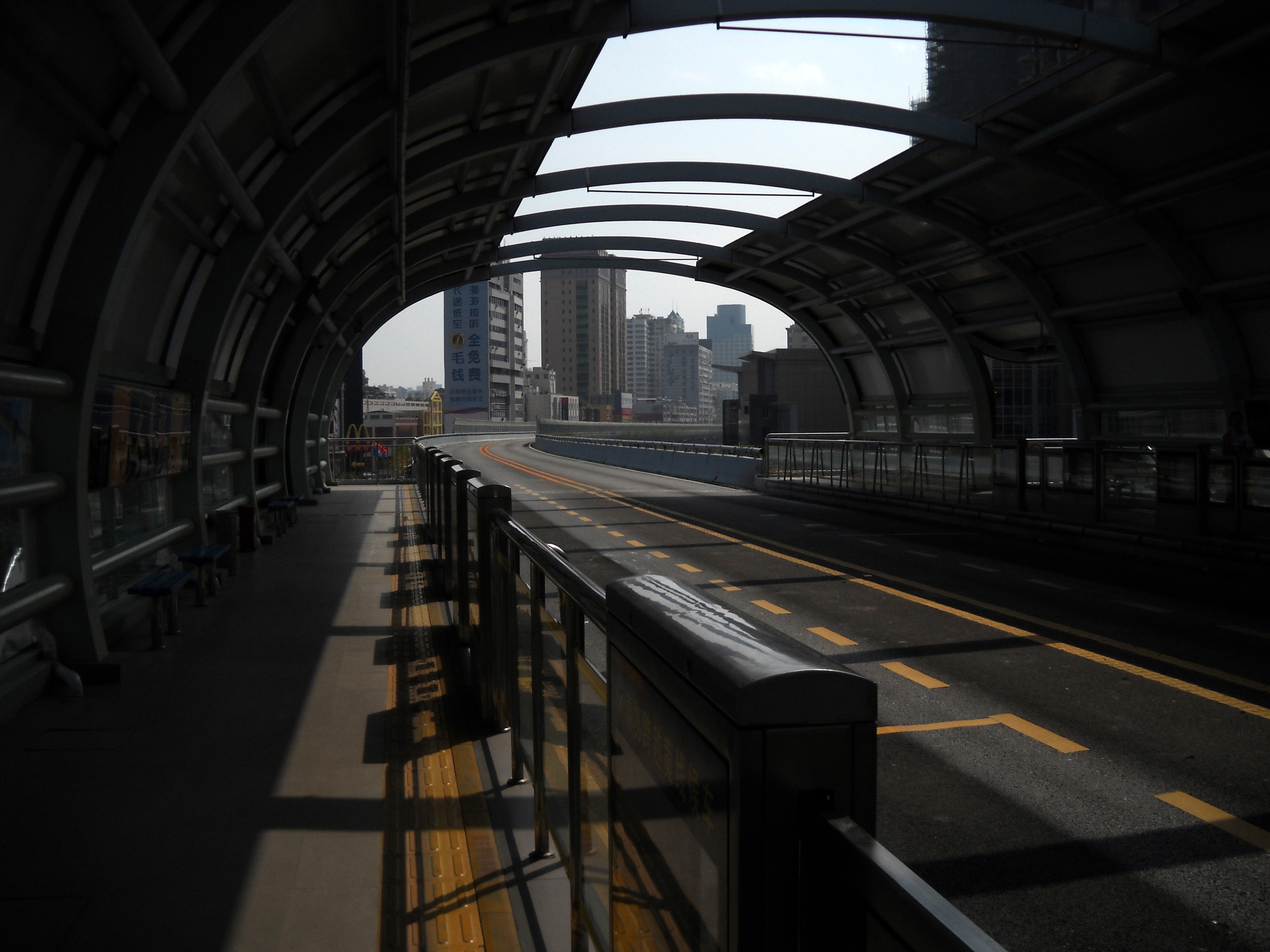 Bus Rapid Transit